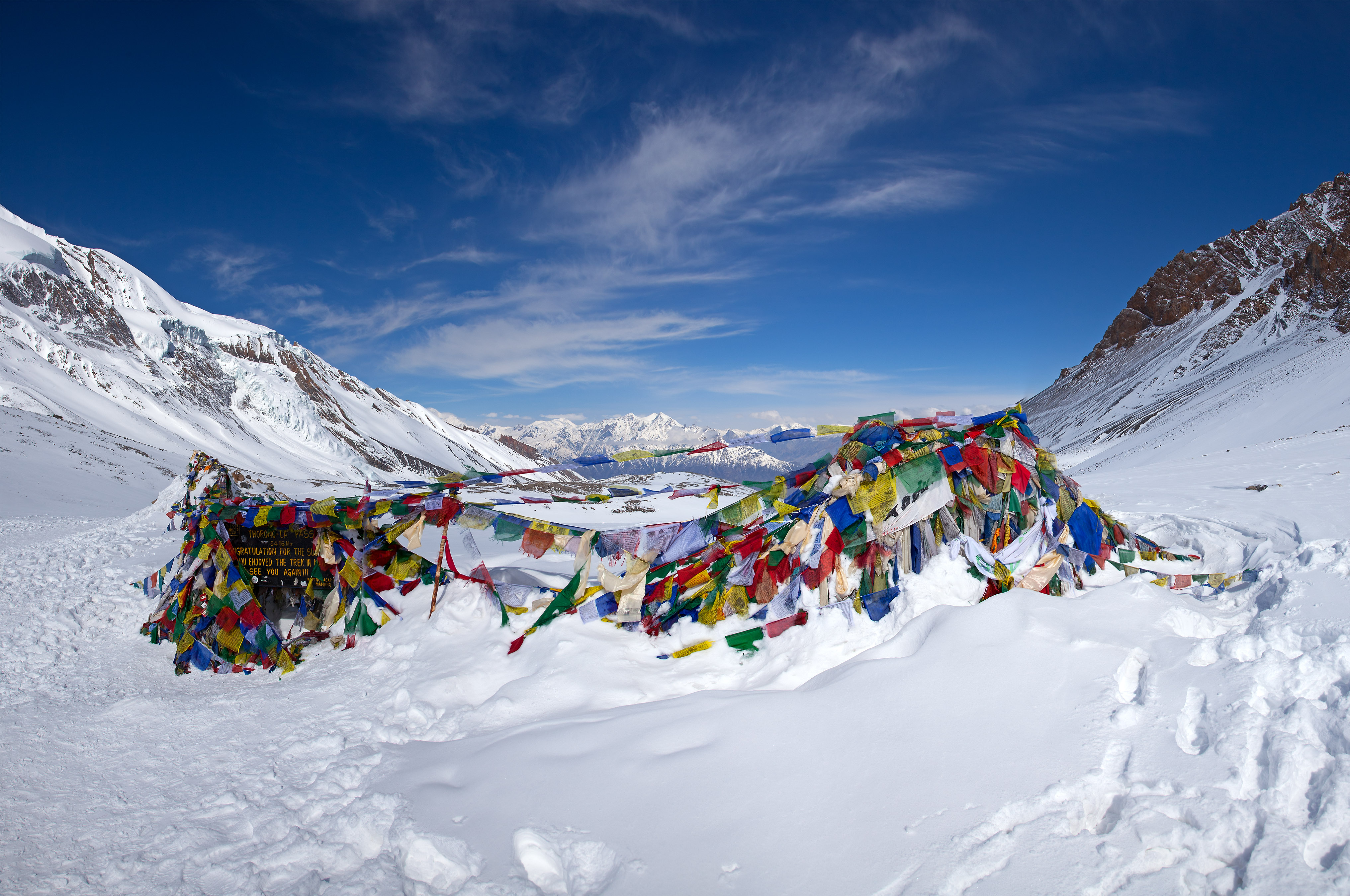 Thorong La pass (5416 m)